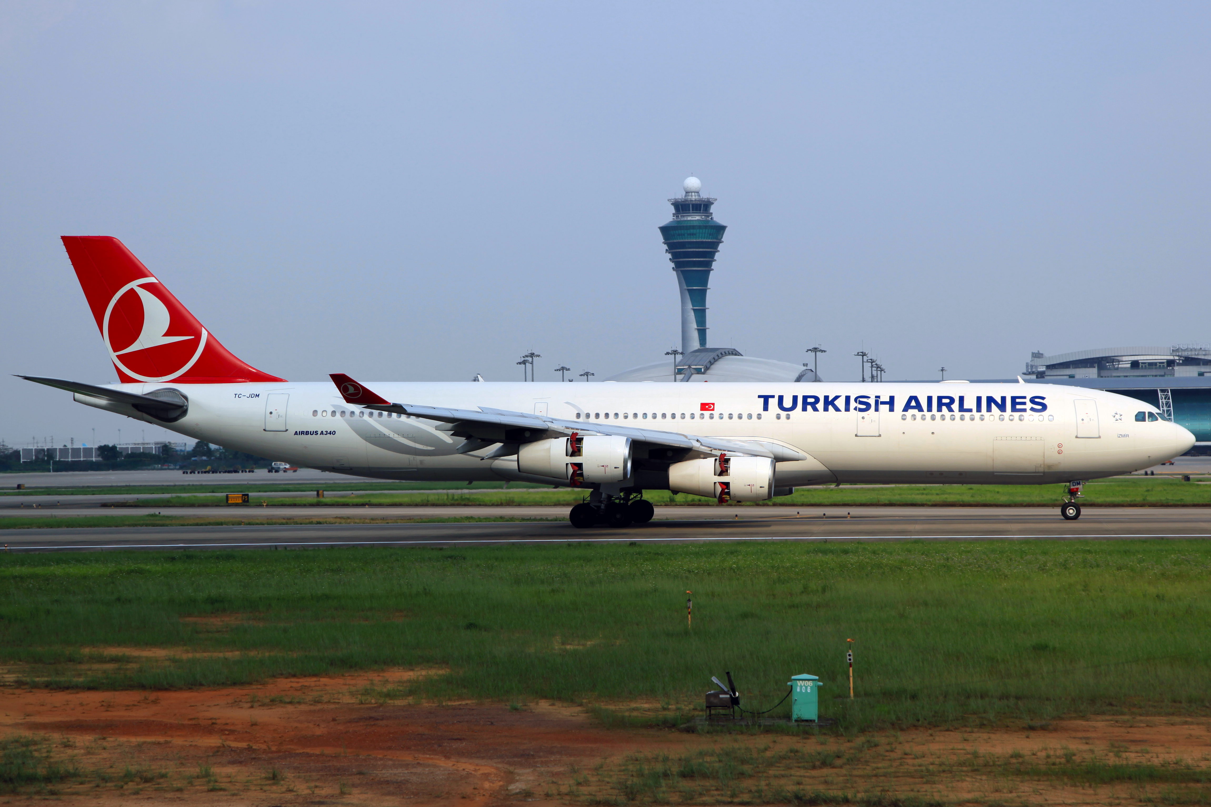 TC-JDM | Turkish Airlines | Airbus A340-311 | Guangzhou Baiyun International Airport [CAN]